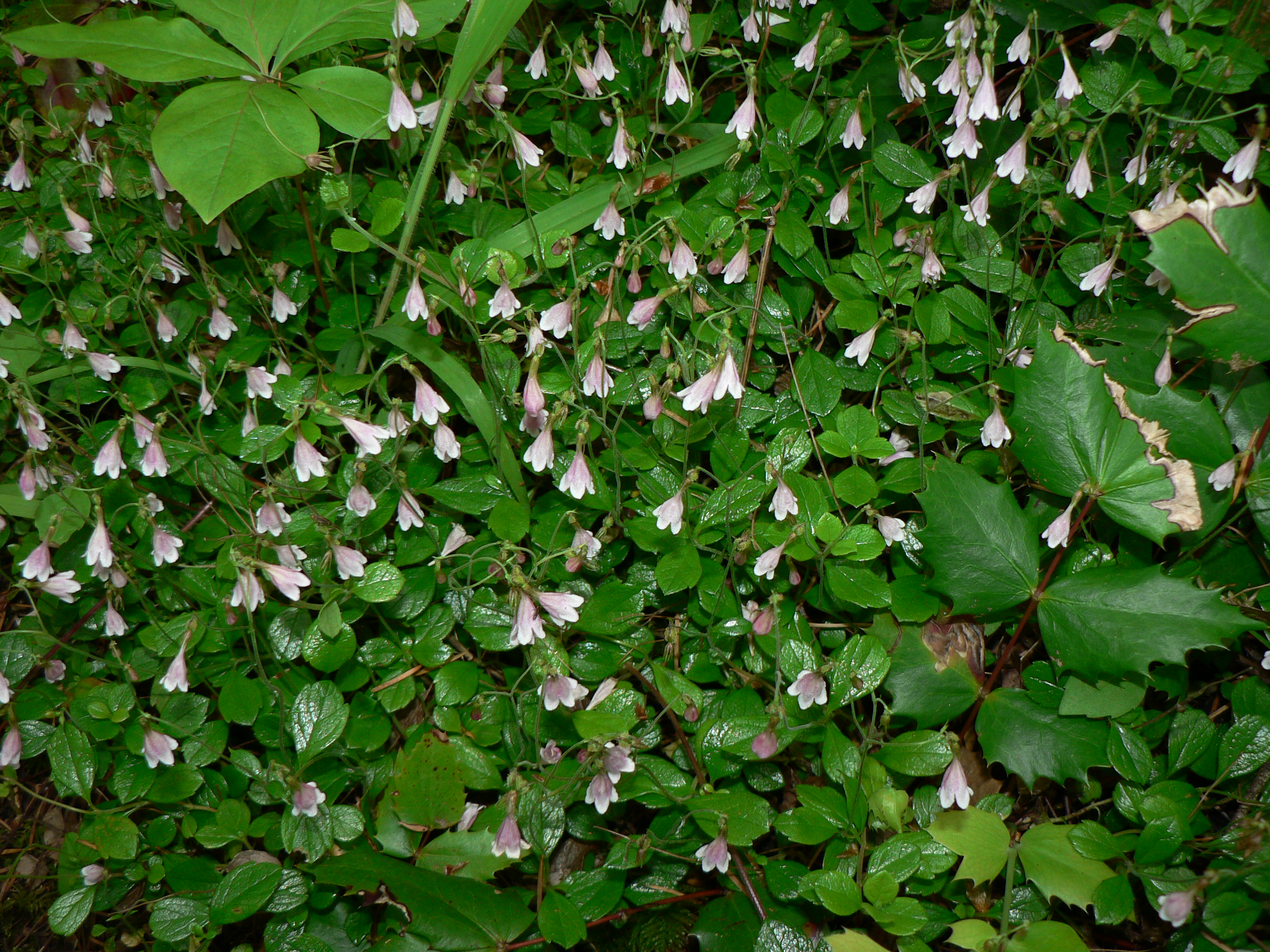 American twinflower